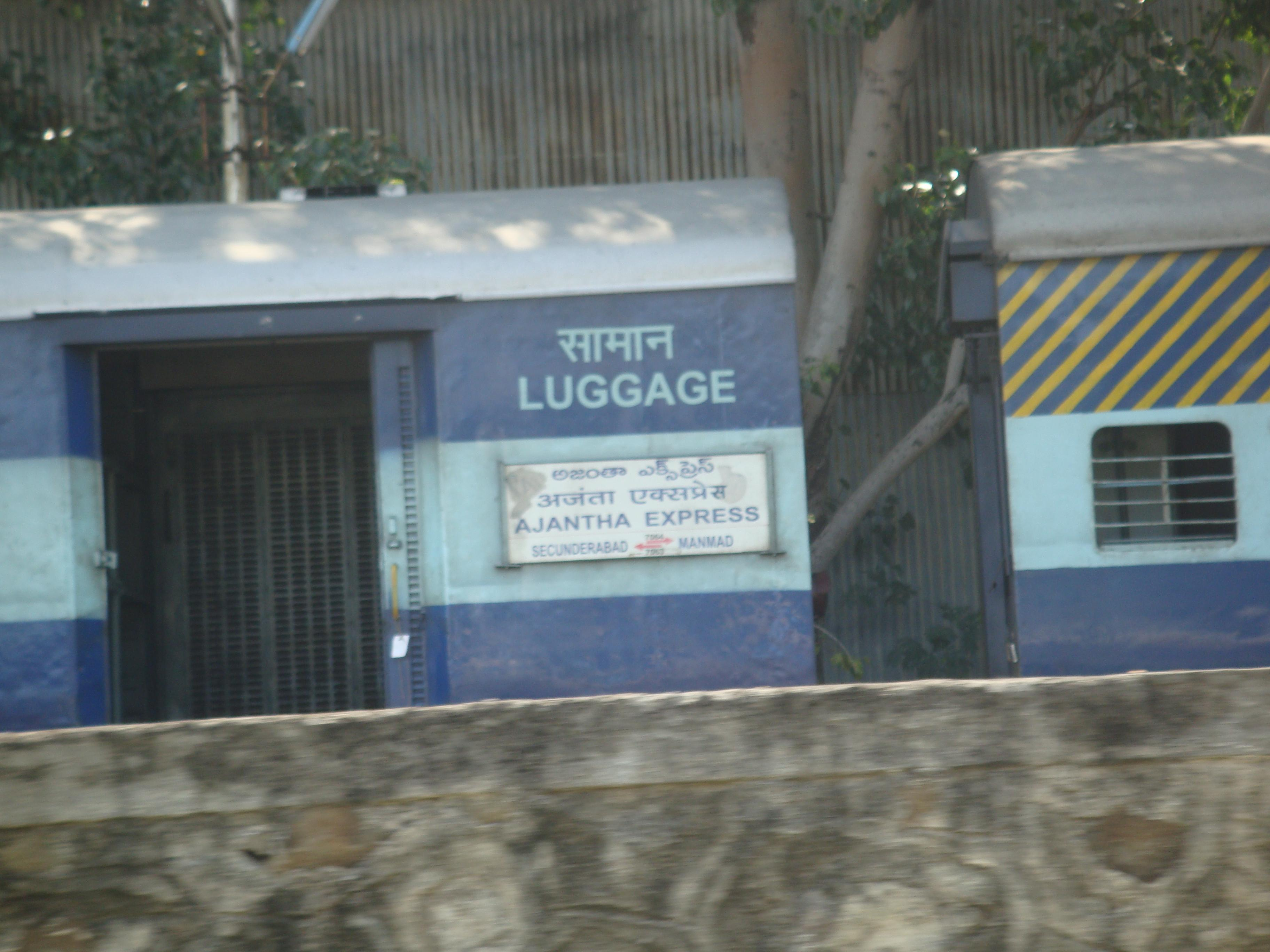 17604 Ajantha Express